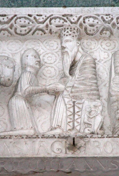 Italy, Pistoia, church of Sant'Andrea (St.Andrew), front, figured frieze of the main door (king Herod)